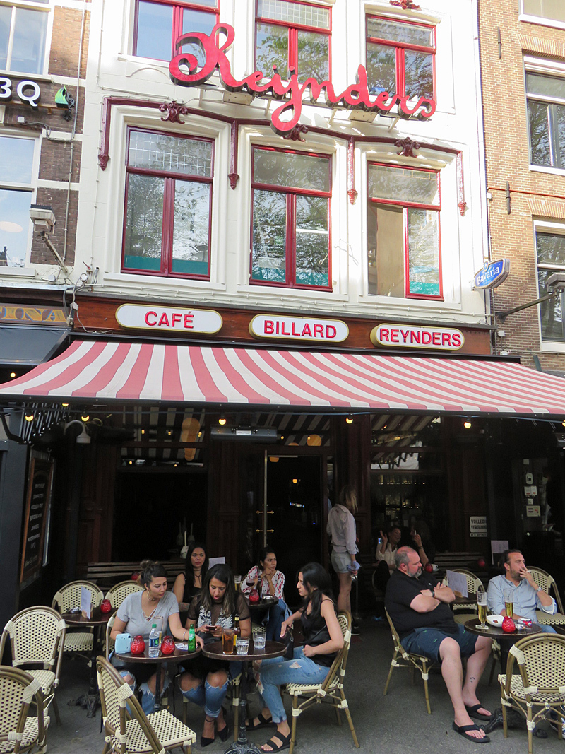 Cafe Reynders at Leidseplein 6 in Amsterdam, established in 1896